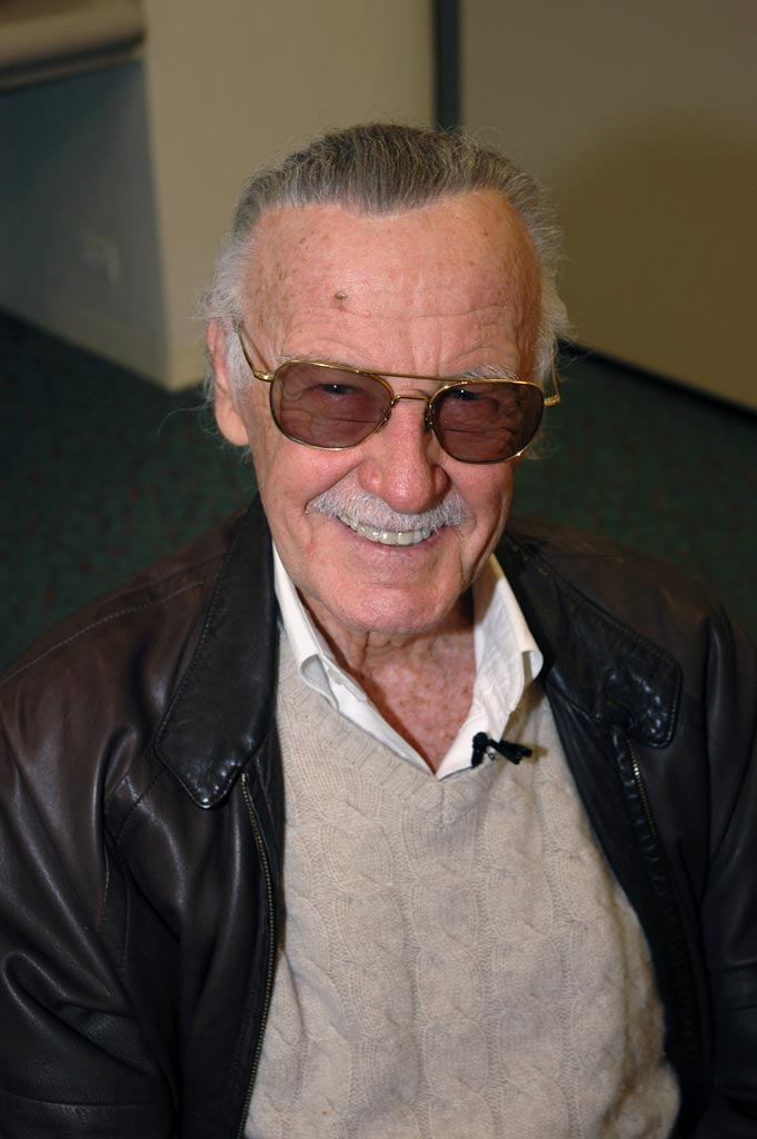 Stan "The Man" Lee, right after we finished his interview about Mosaic and Condor. An amazingly gracious and entertaining gentleman.